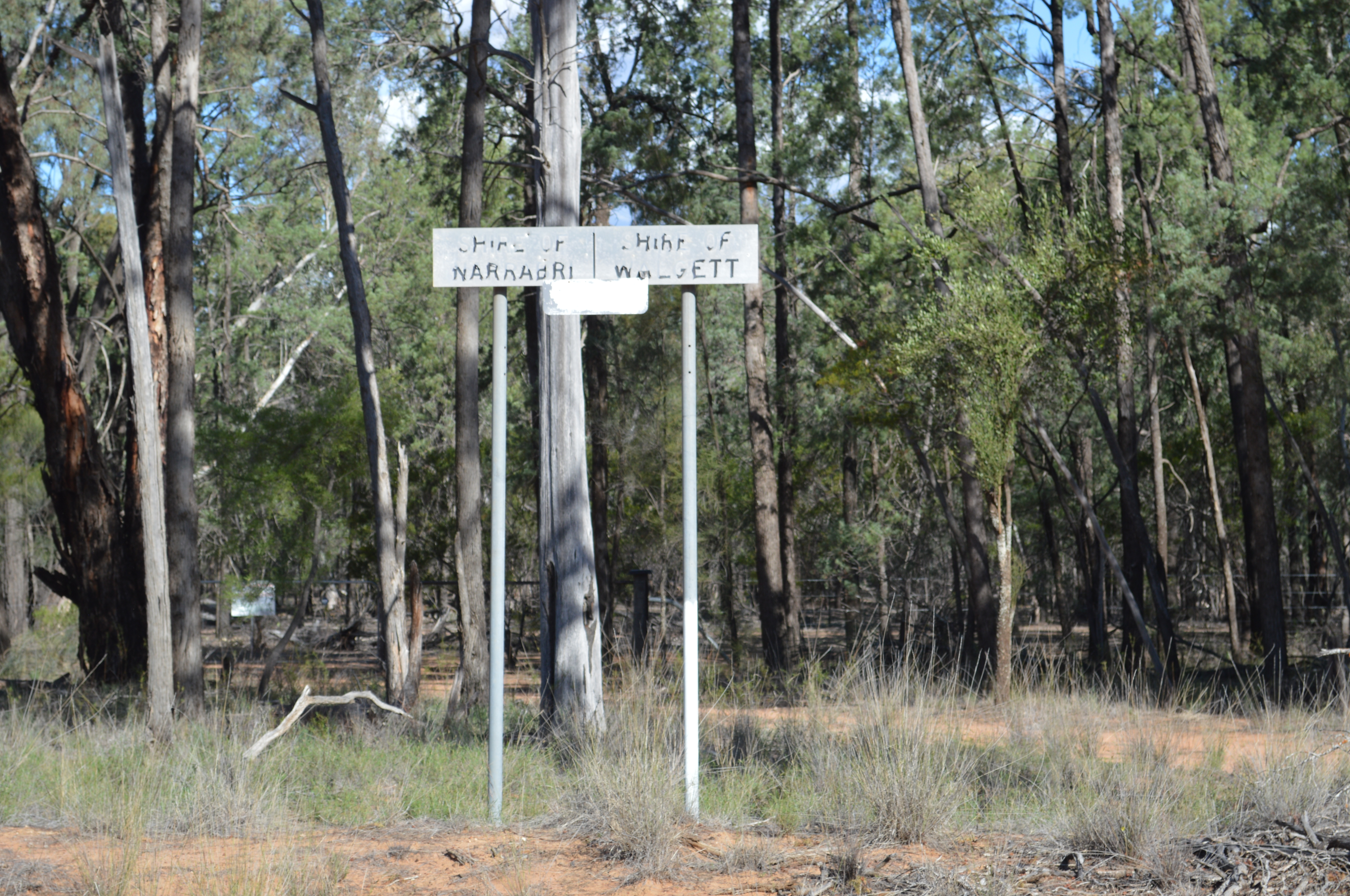 Sign marking the boundary between Narrabri Shire and Walgett Shire near Pilliga, New South Wales